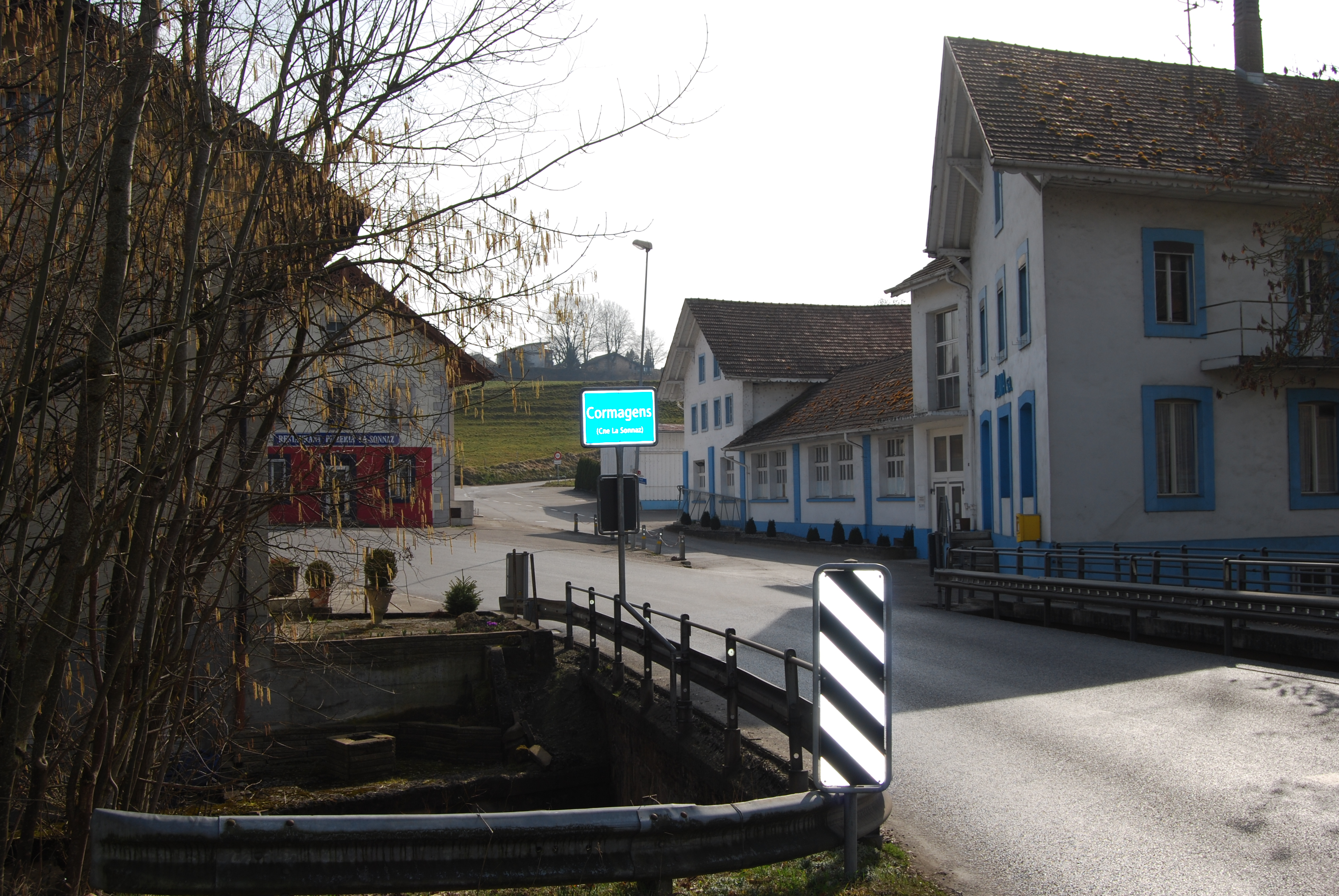 Cormagens, municipality La Sonnaz, canton of Fribourg, Switzerland